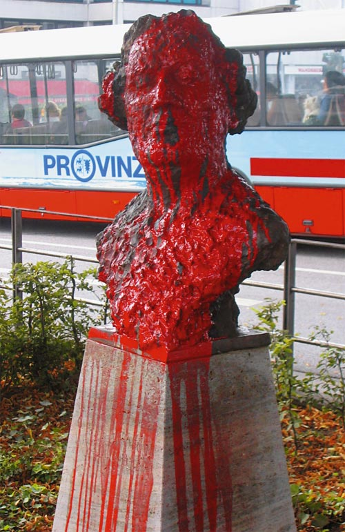 The new designed bust for the Danish Finance Minister and one of the most influential European slave traders Heinrich Karl Schimmelmann (1724-1782) was inaugurated 2006 by the district government and the city of Hamburg. Indignant citizens, the Black Community Hamburg ( protested and artists intervened in urban space within the project "wandsbektransformance. The Colonial in the Present"" ( Several times the honouring bust was poured over with red colour. Finally, 2008 the slave trader memorial was officially removed - the most short-lived colonial memorial ever!